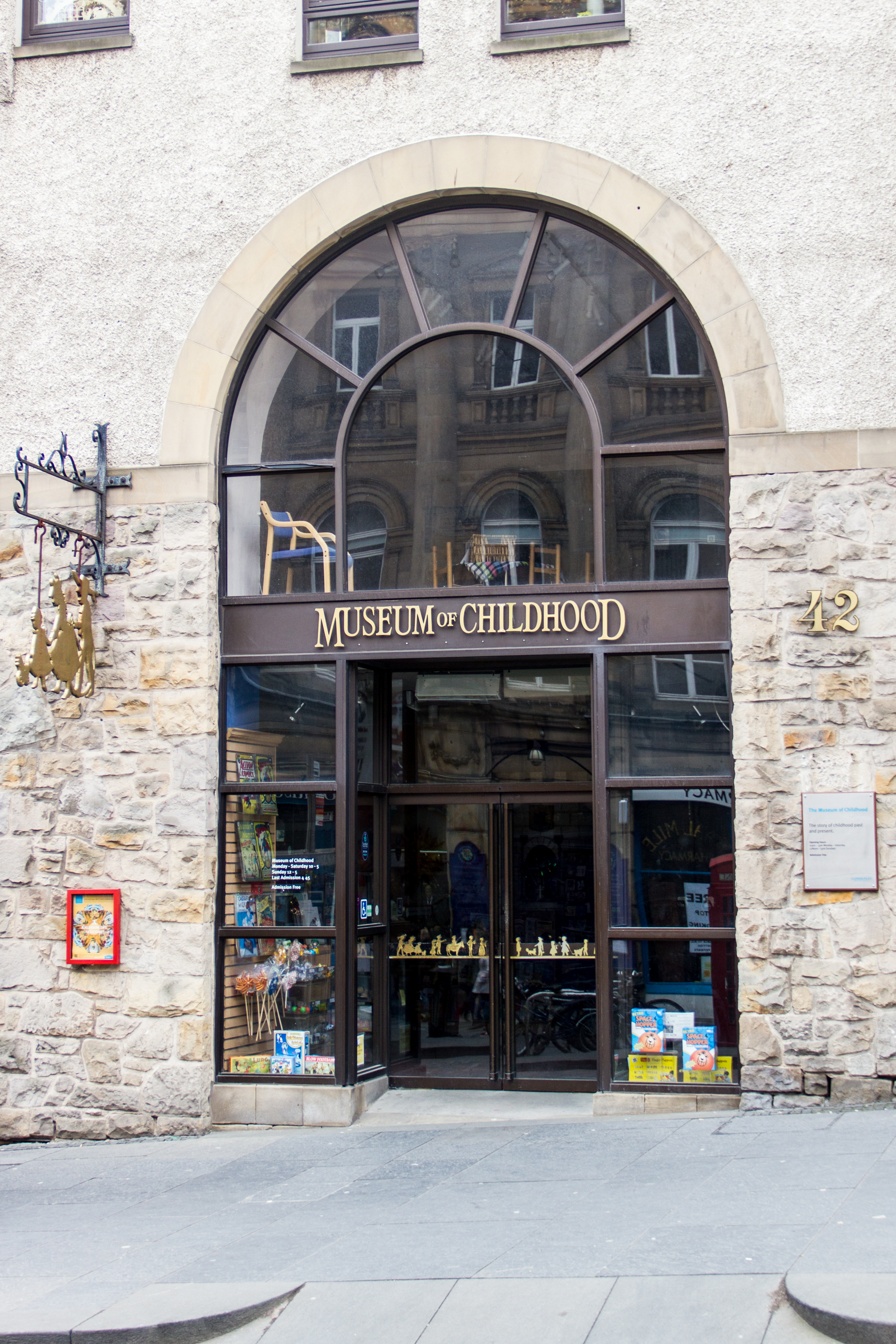 The entrance to the Museum of Childhood in Edinburgh, Scotland.